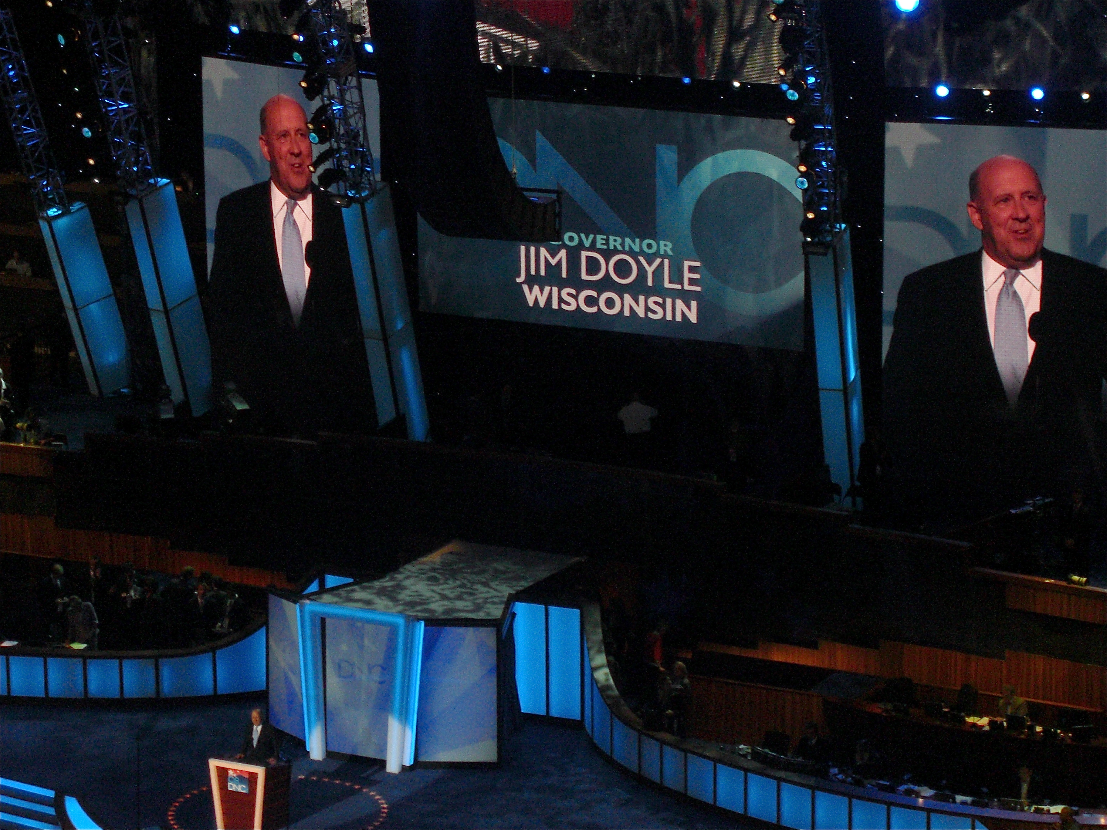 Jim Doyle speaks during the second day of the 2008 Democratic National Convention in Denver, Colorado, United States.